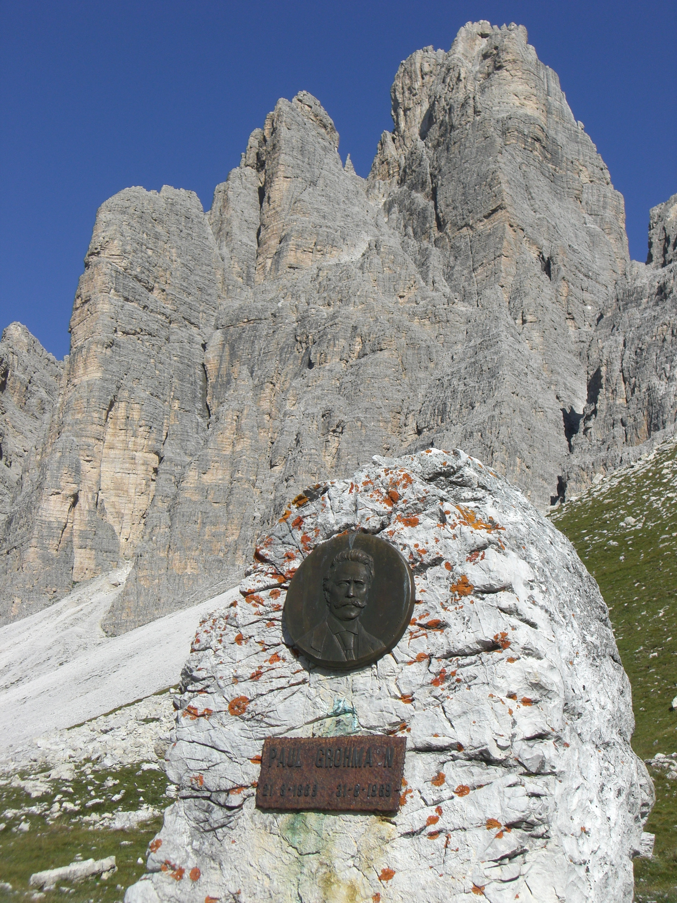 Plaque commemorating the first ascent of the Große Zinne, part of the Drei Zinnen (ital.: Cima Grande, part of the Tre Cime Di Lavaredo) in the Dolomites, South Tyrol/Veneto, Italy, by Paul Grohmann in 1869